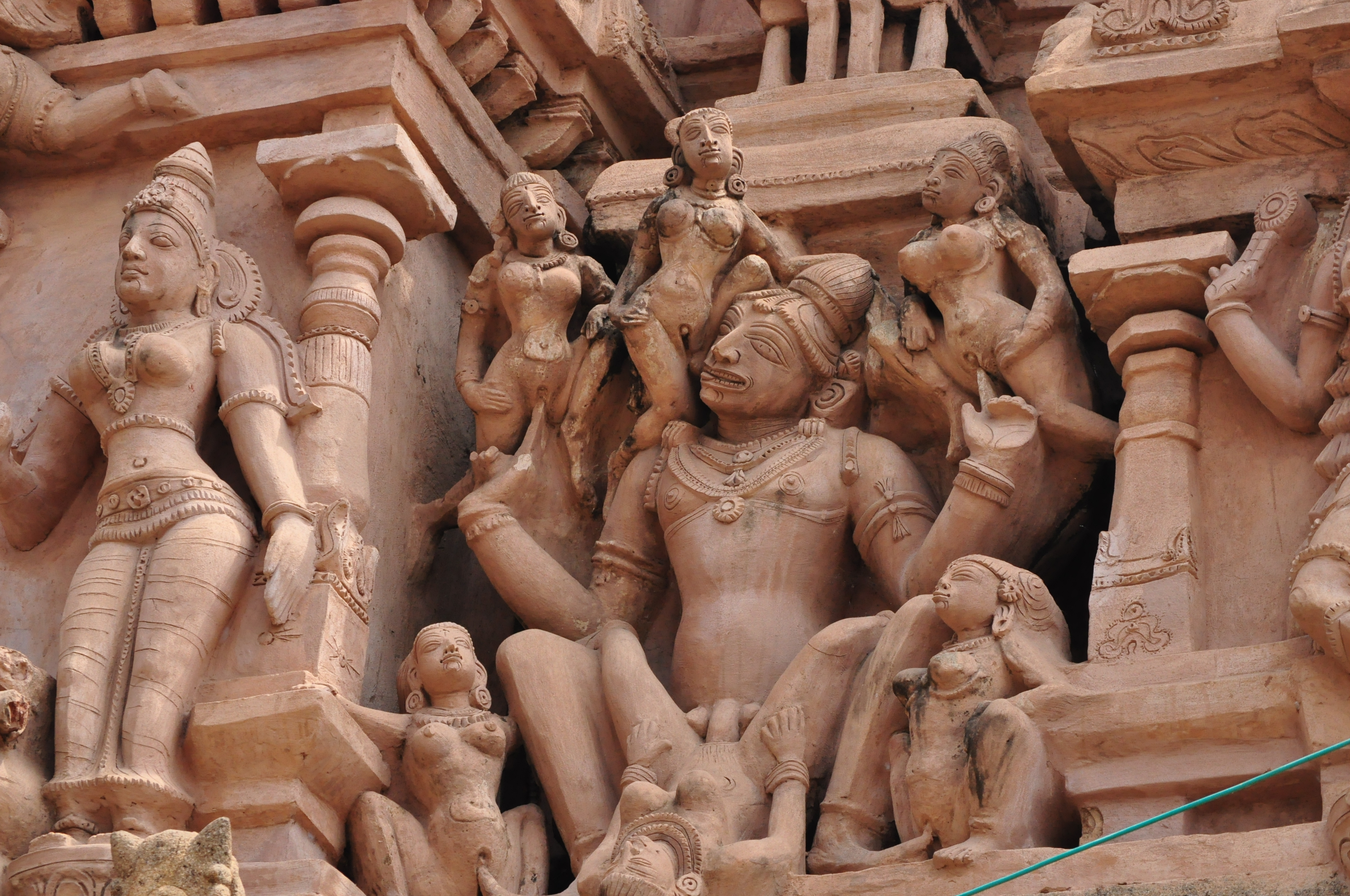 Sex statue in Thirumayam temple.